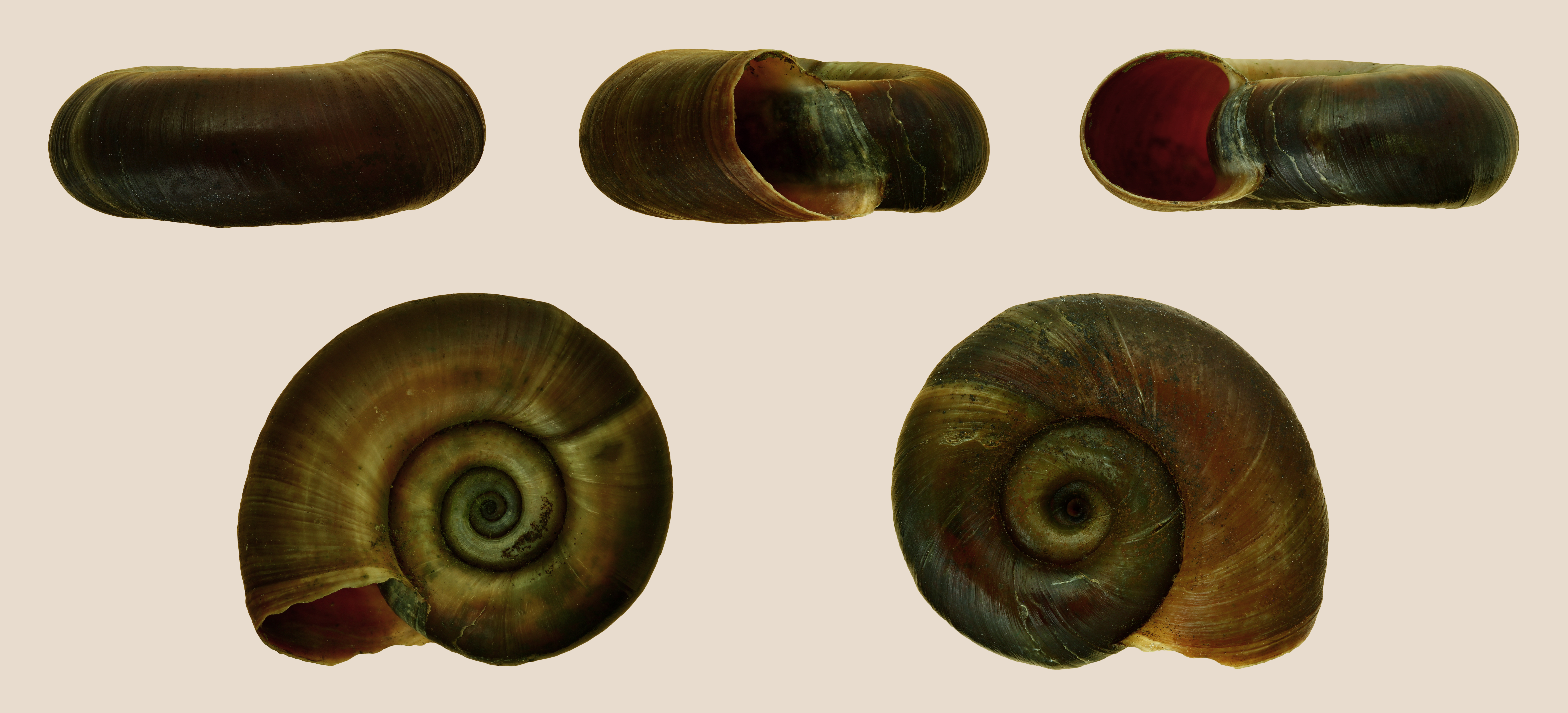 Planorbarius corneus (Linnæus, 1758), Great Ramshorn; Diameter 3.0 cm; Originating from an aquarium breeding; Shell of own collection, therefore not geocoded.